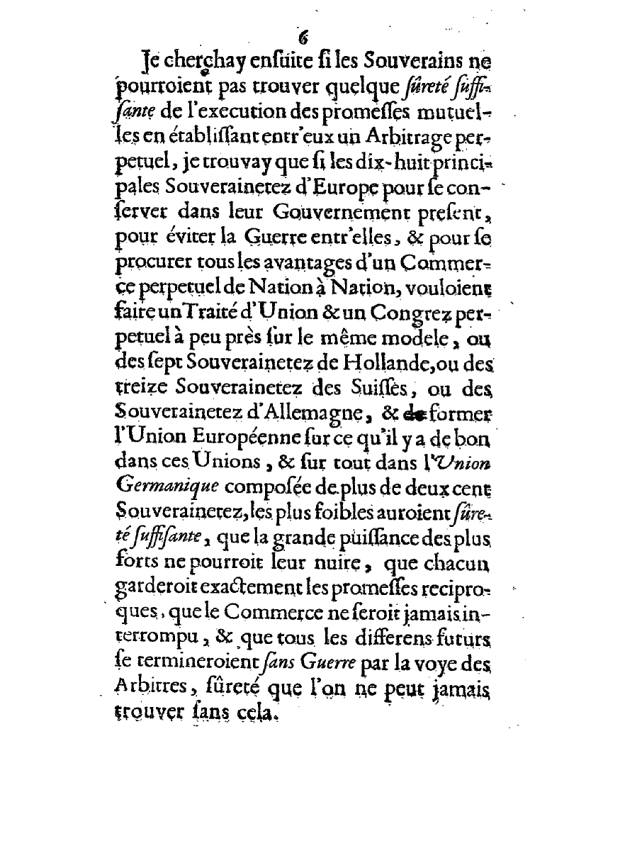 p.6 of Projet pour rendre la paix perpétuelle en Europe par l'abbé Castel de Saint-Pierre by Charles-Irénée Castel de Saint-Pierre (1658-1743), 1712